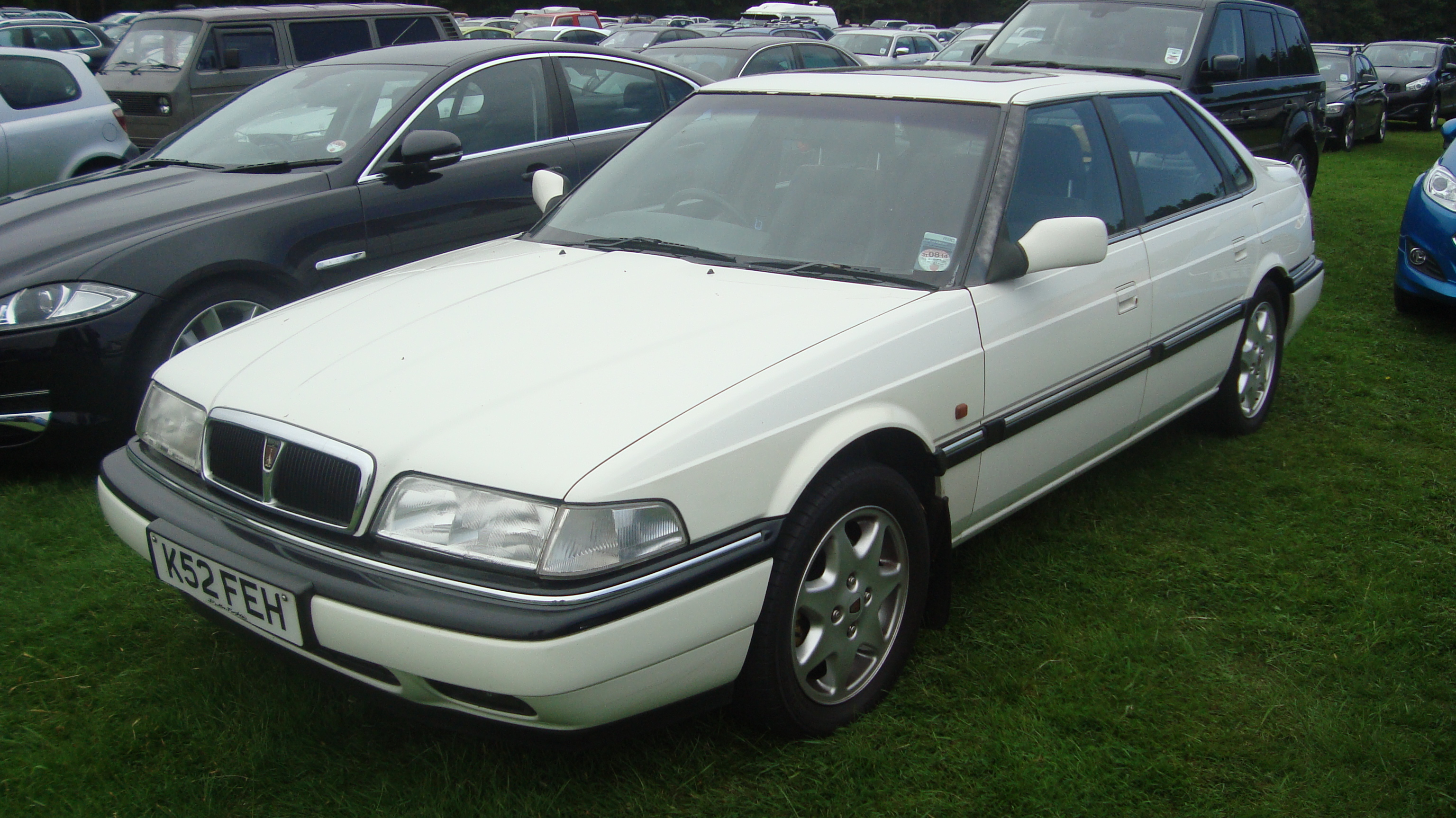 This had a lovely Recaro leather interior